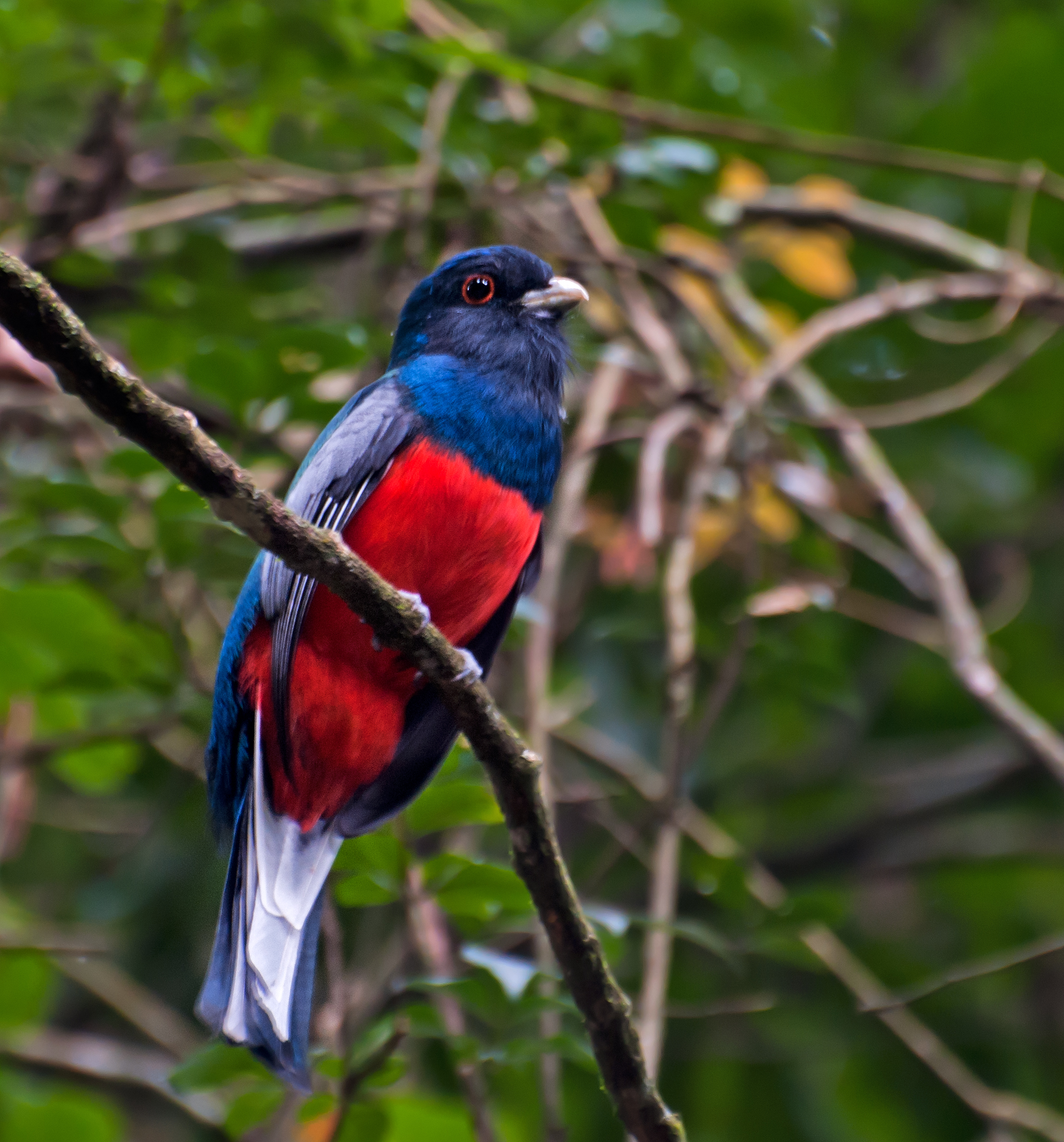 A male Surucua Trogon in Parque Estadual da Serra da Cantareira, São Paulo, Brazil.